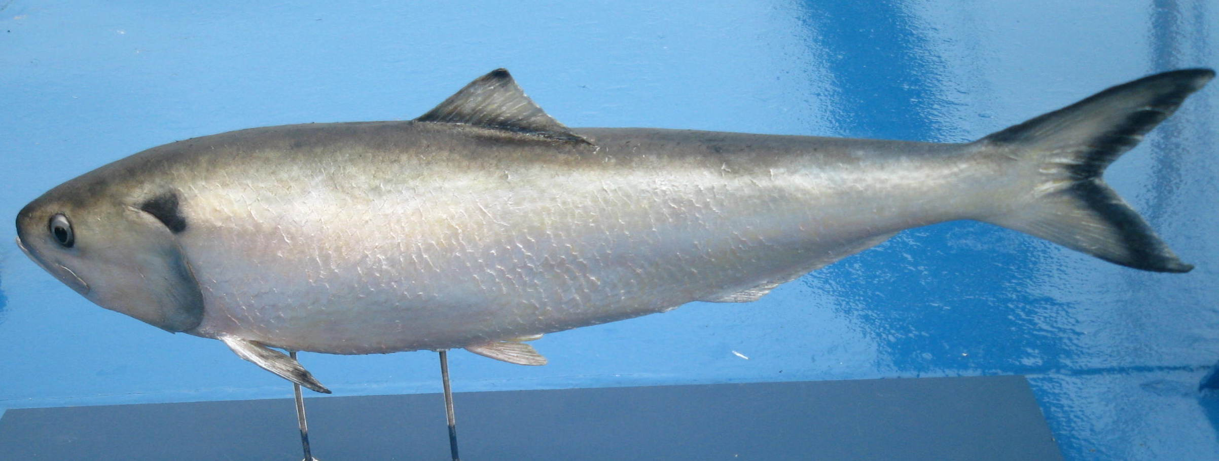 Shads,alosa alosa, an old one und two joung, caught in the lower River Rhine 2010.10.07